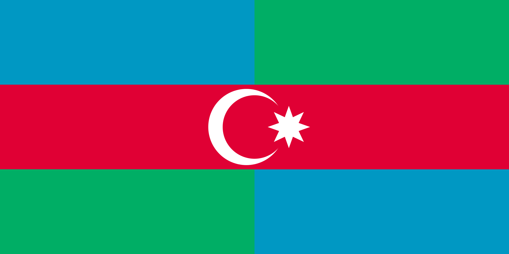 South Azerbaijan FlagTürkçe: Güney Azerbaycan BayrağıAzərbaycanca: Cənubi Azərbaycan bayrağı